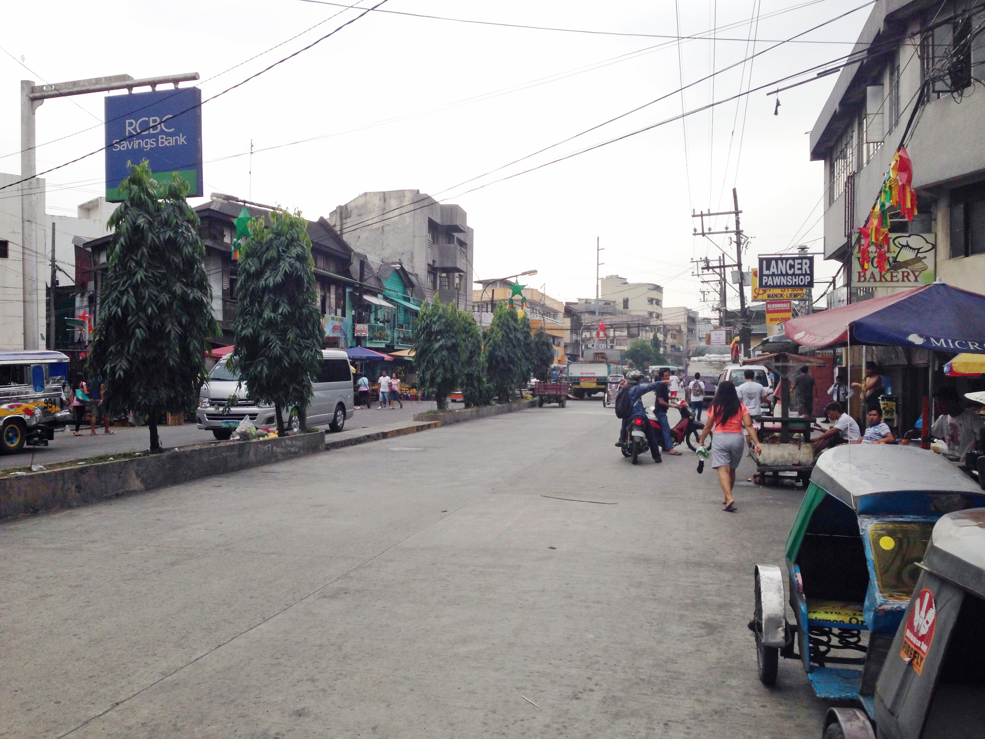 Blumentritt Road looking west towards Rizal Avenue/LRT station from Aurora Blvd.